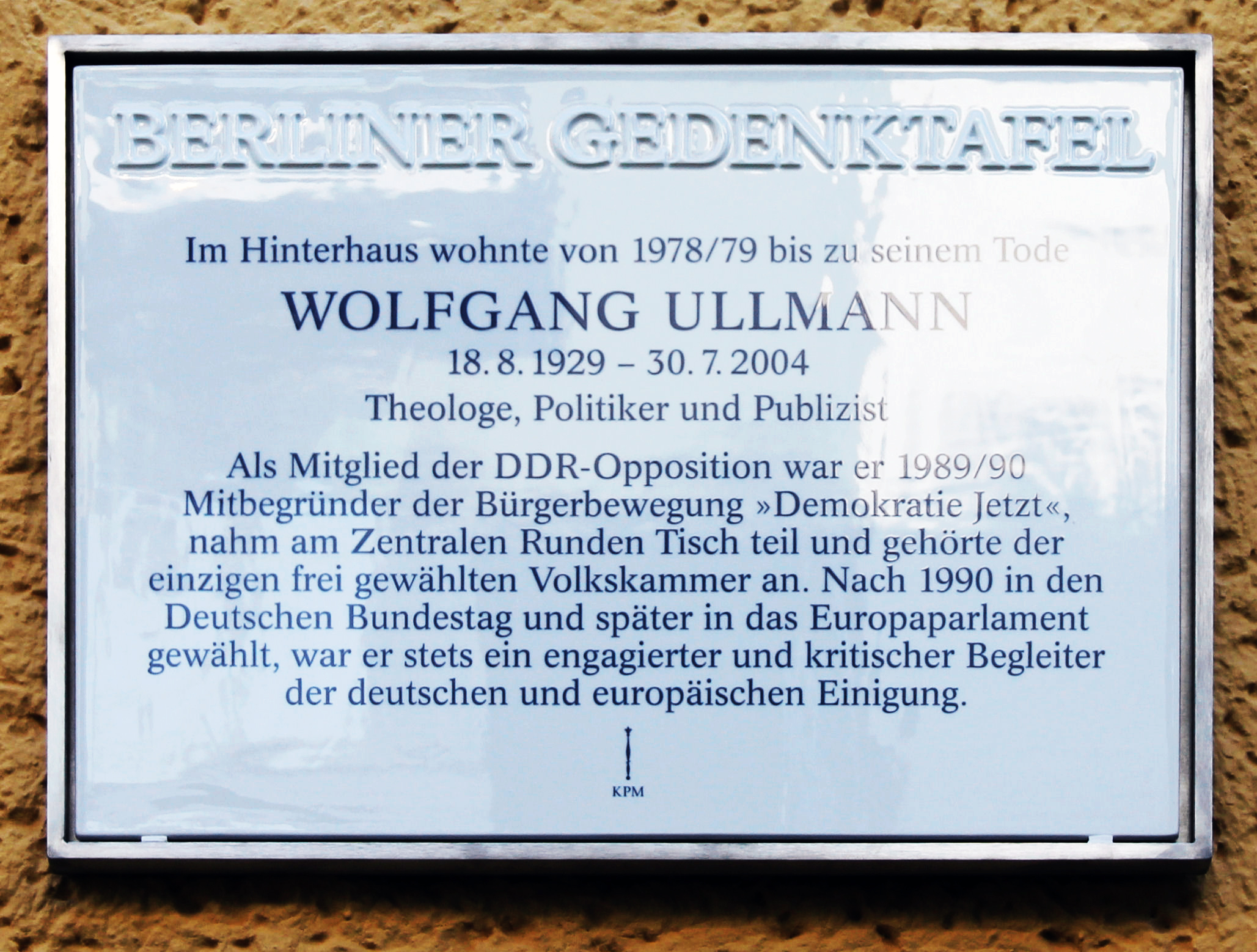 Berlin memorial plaque, Wolfgang Ullmann, Tieckstraße 17, Berlin-Mitte, Germany